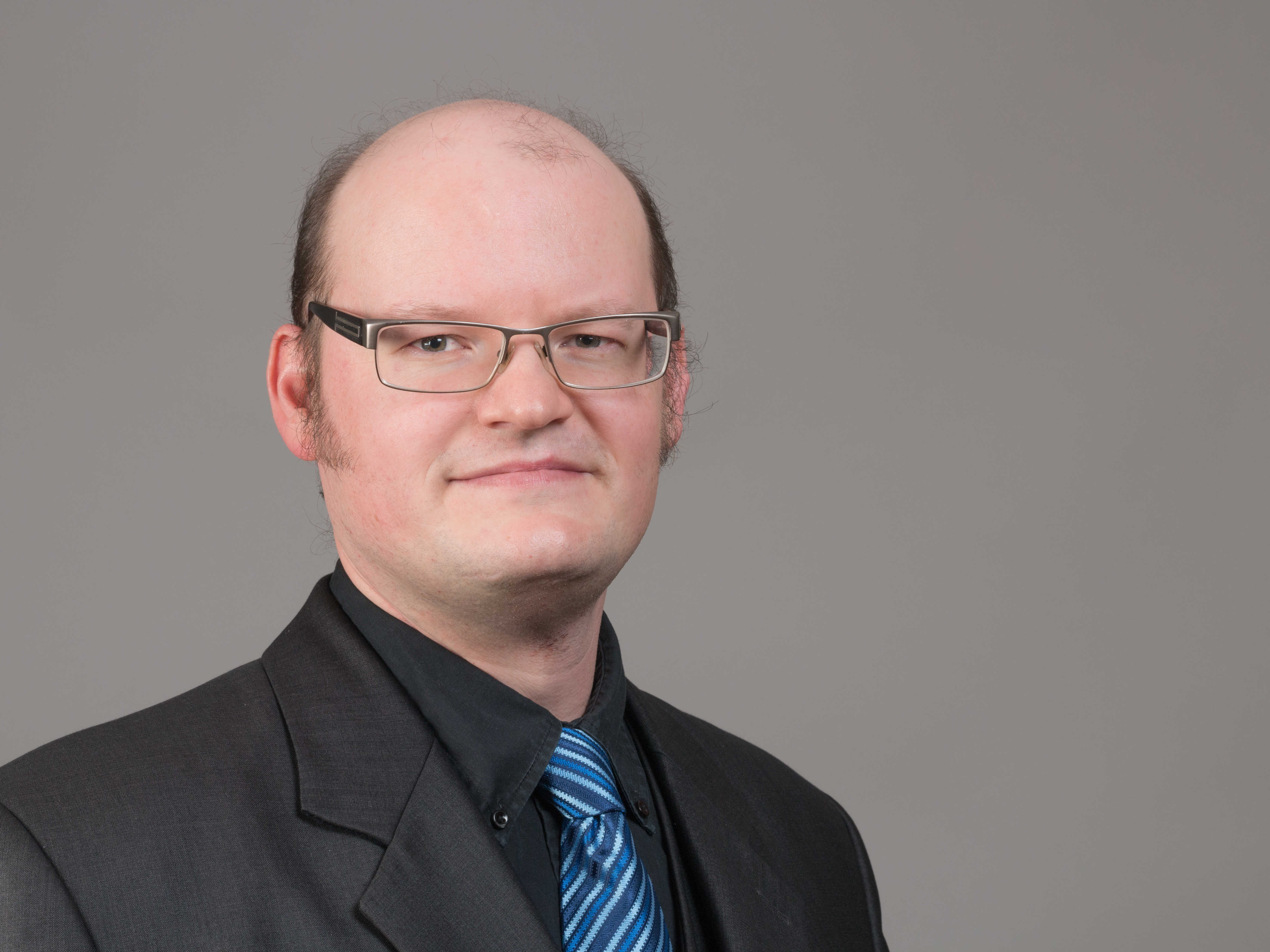 Daniel Hensel, composer, VJ, musicologist and music theorist from Büdingen, Germany